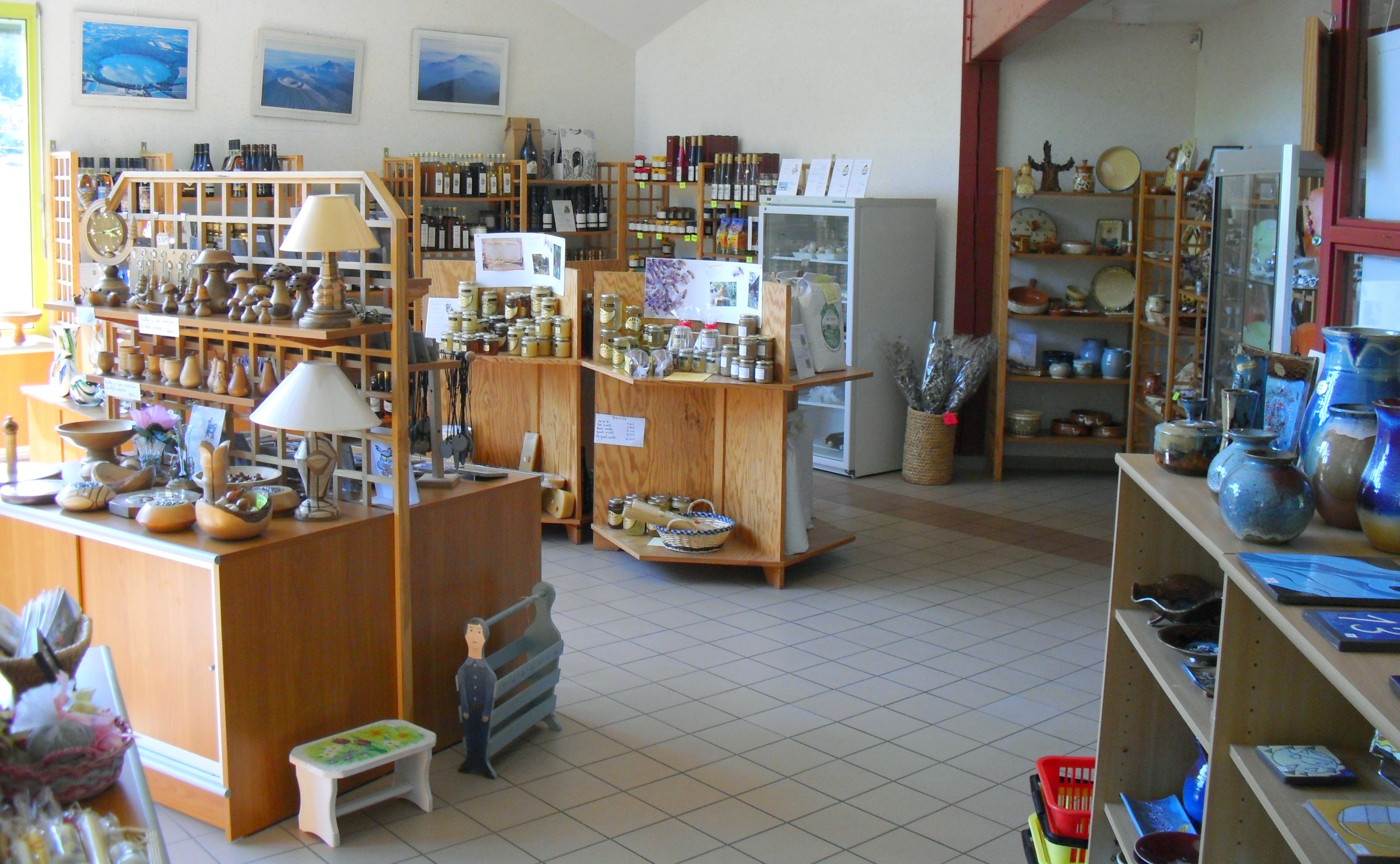 Tourist office of Menat.